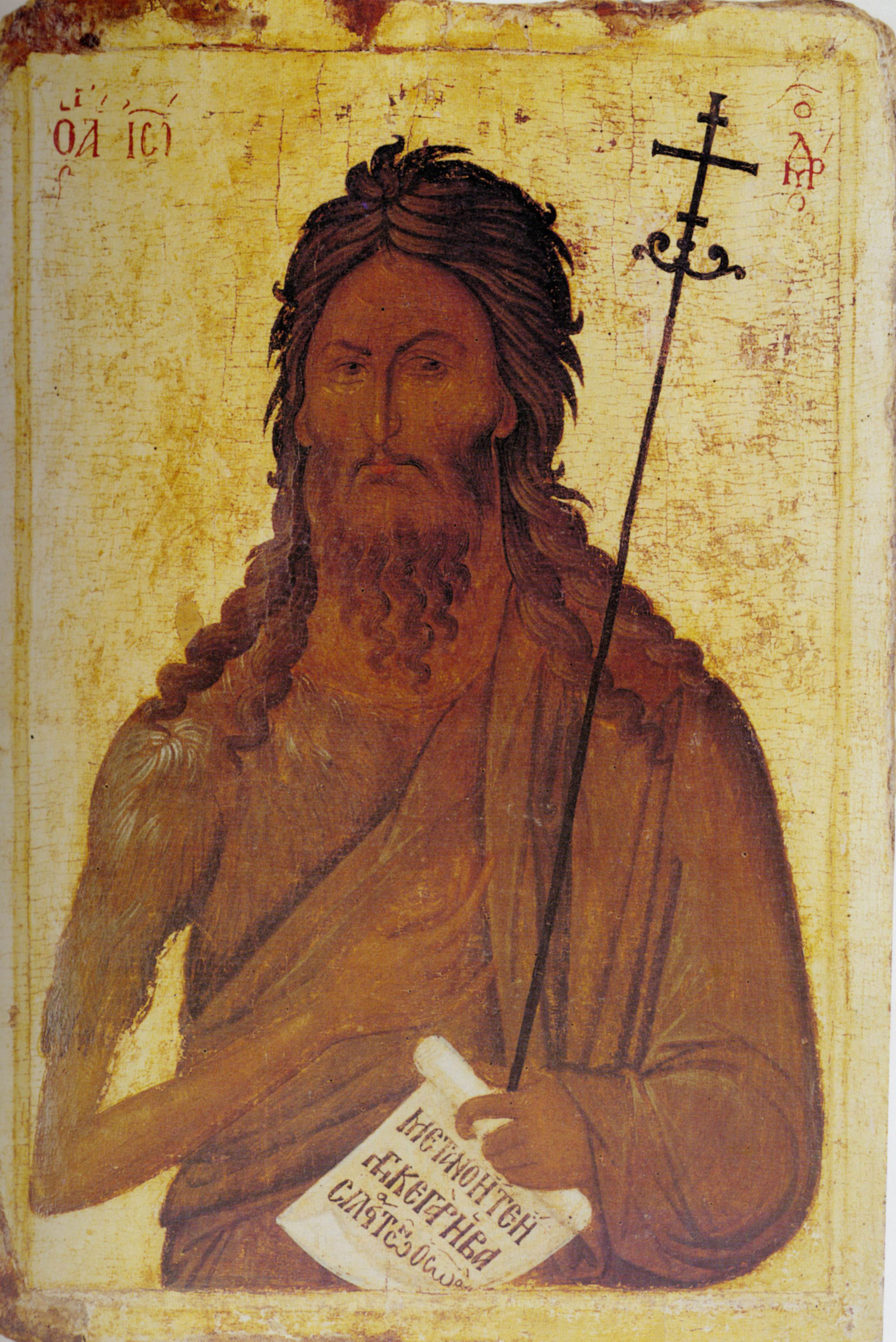 John the Baptist. Icon from Macedonia